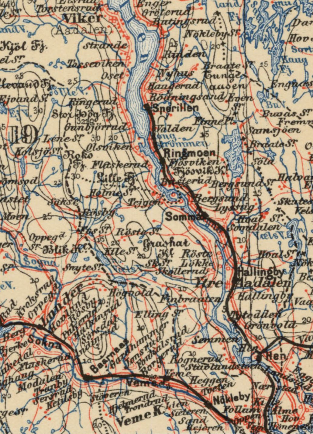 Part of general map of Norway 1931